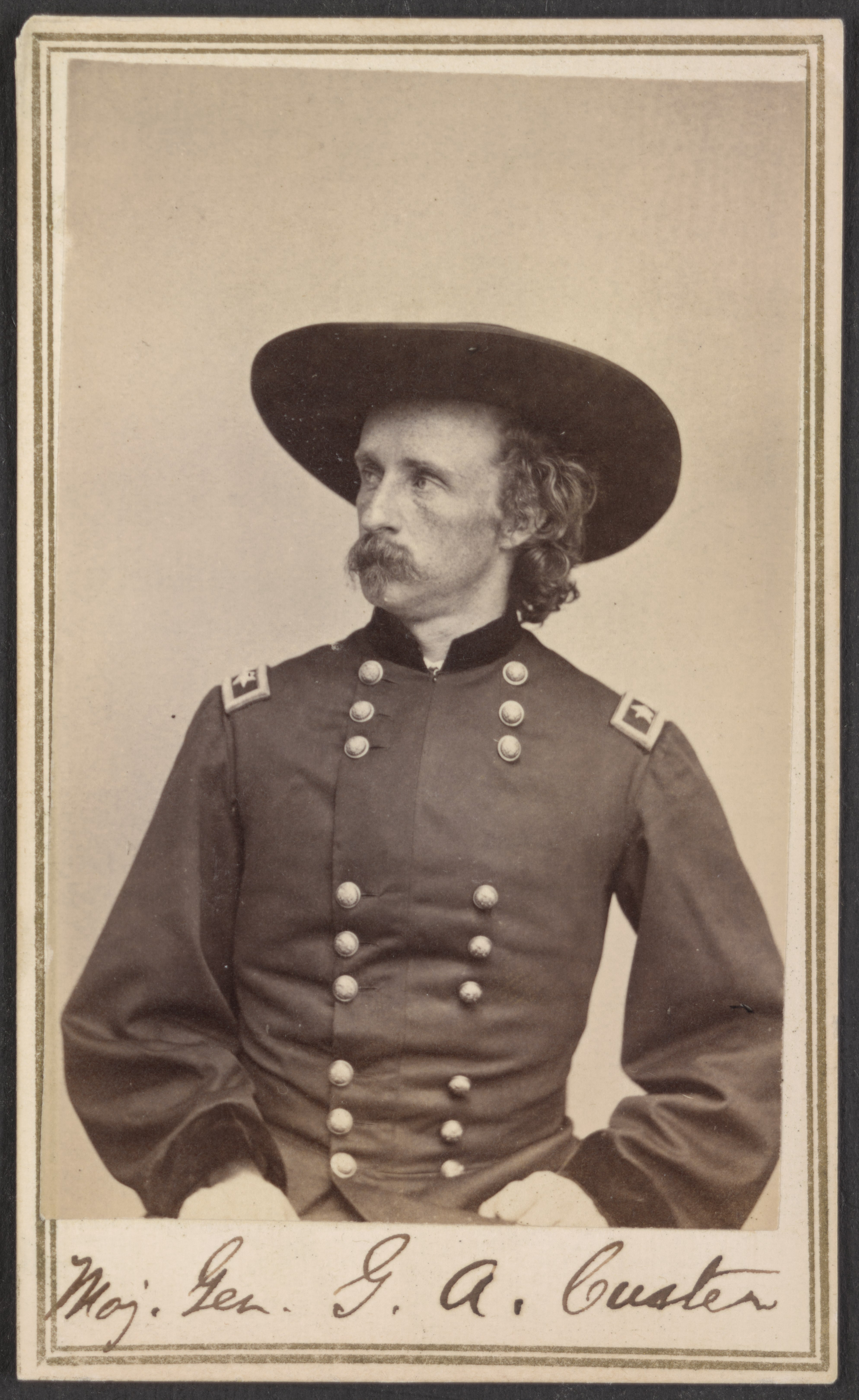 Title: Maj. Gen. G.A. Custer / From photographic negative in Brady's National Portrait Gallery. Abstract/medium: 1 photograph : albumen print on card mount ; mount 10 x 7 cm (carte de visite format)